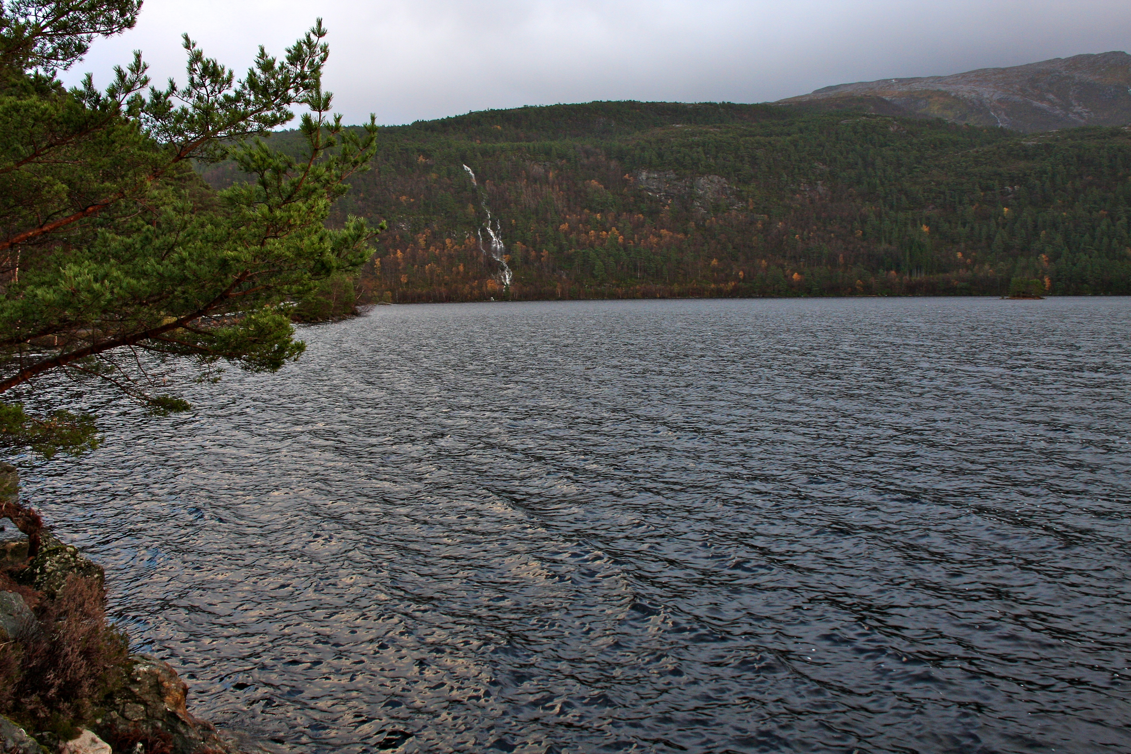 Gulen municipality, Norway.